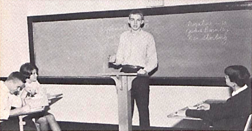 James Burnley IV arguing a debate point at the National Forensic League at High Point Central High School in the 1965 edition of the school's yearbook, The Pemican.Original caption from the yearbook: "Jamie Burnley speaks negatively on the subject, Control of Nuclear Weapons, as Dennis Cole, Janet McAllister, and Ken Starling listen intently."